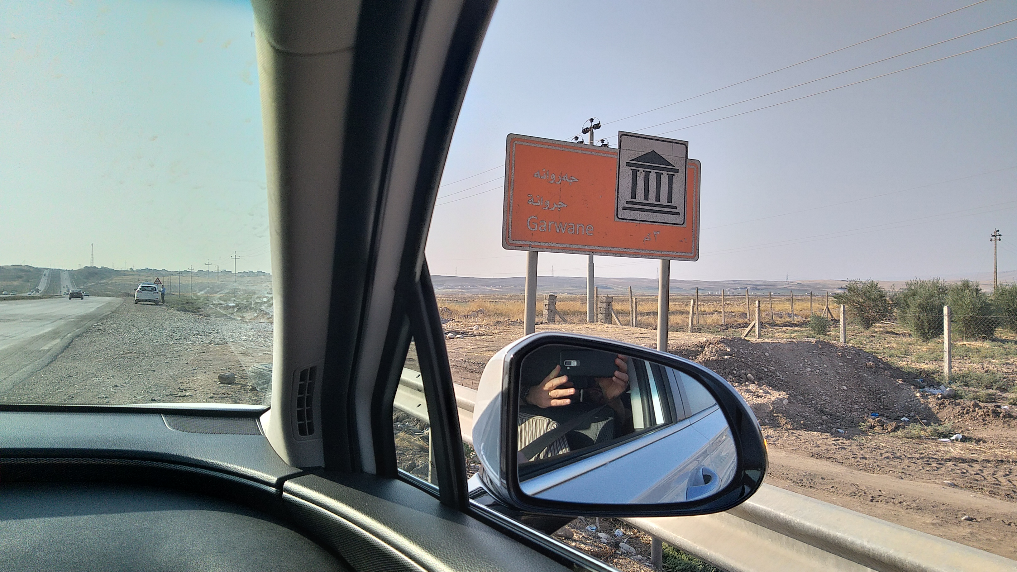 Jerwan Aqueduct3